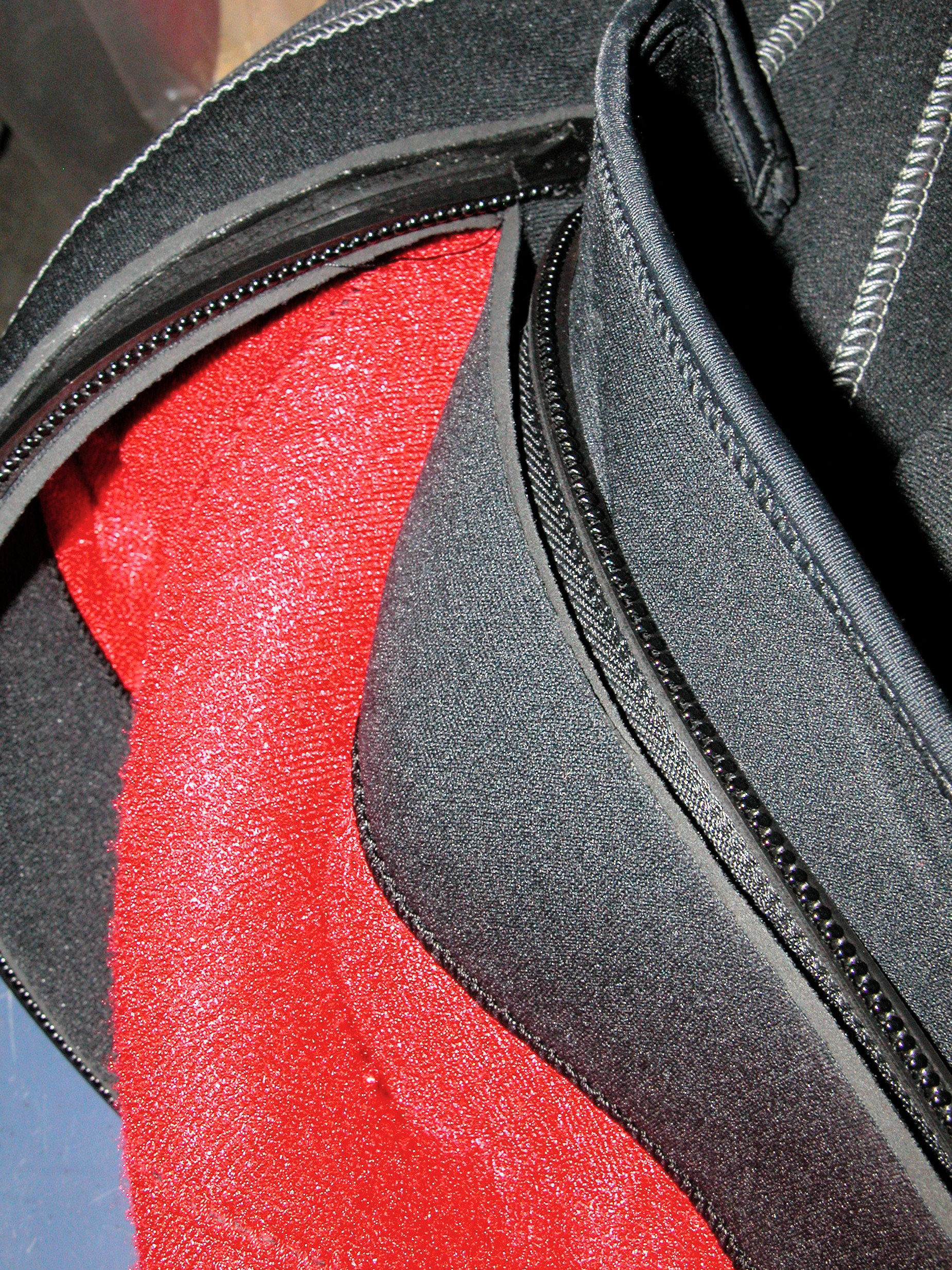 wetsuit, detail of wet suit zipper arrangement, showing the zipper and the protective cover. The cover further reduces water flow through the closure.